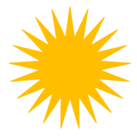 Yazdânism sun.